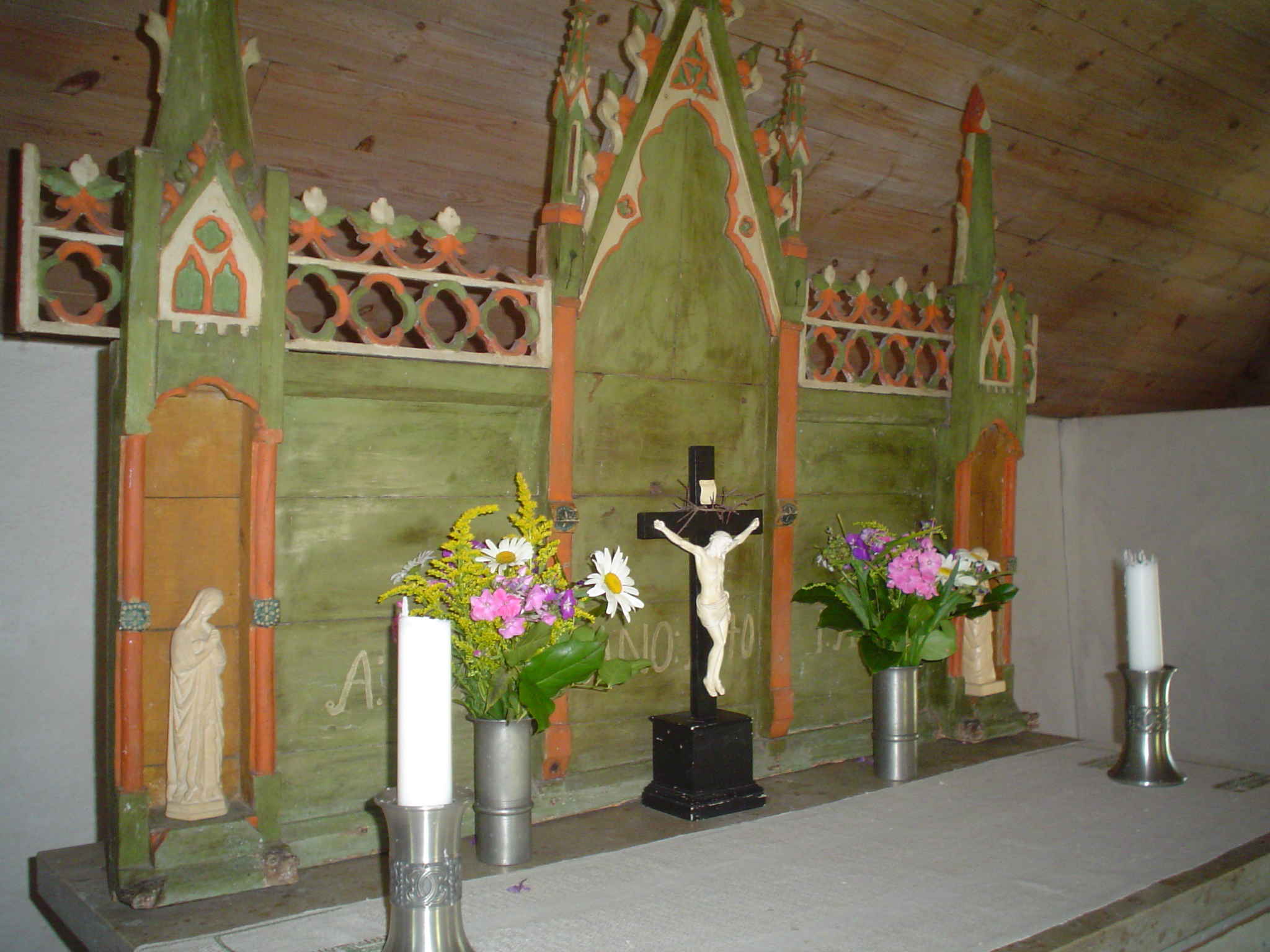 Altarpeice of Hallshuk fisherman chapel